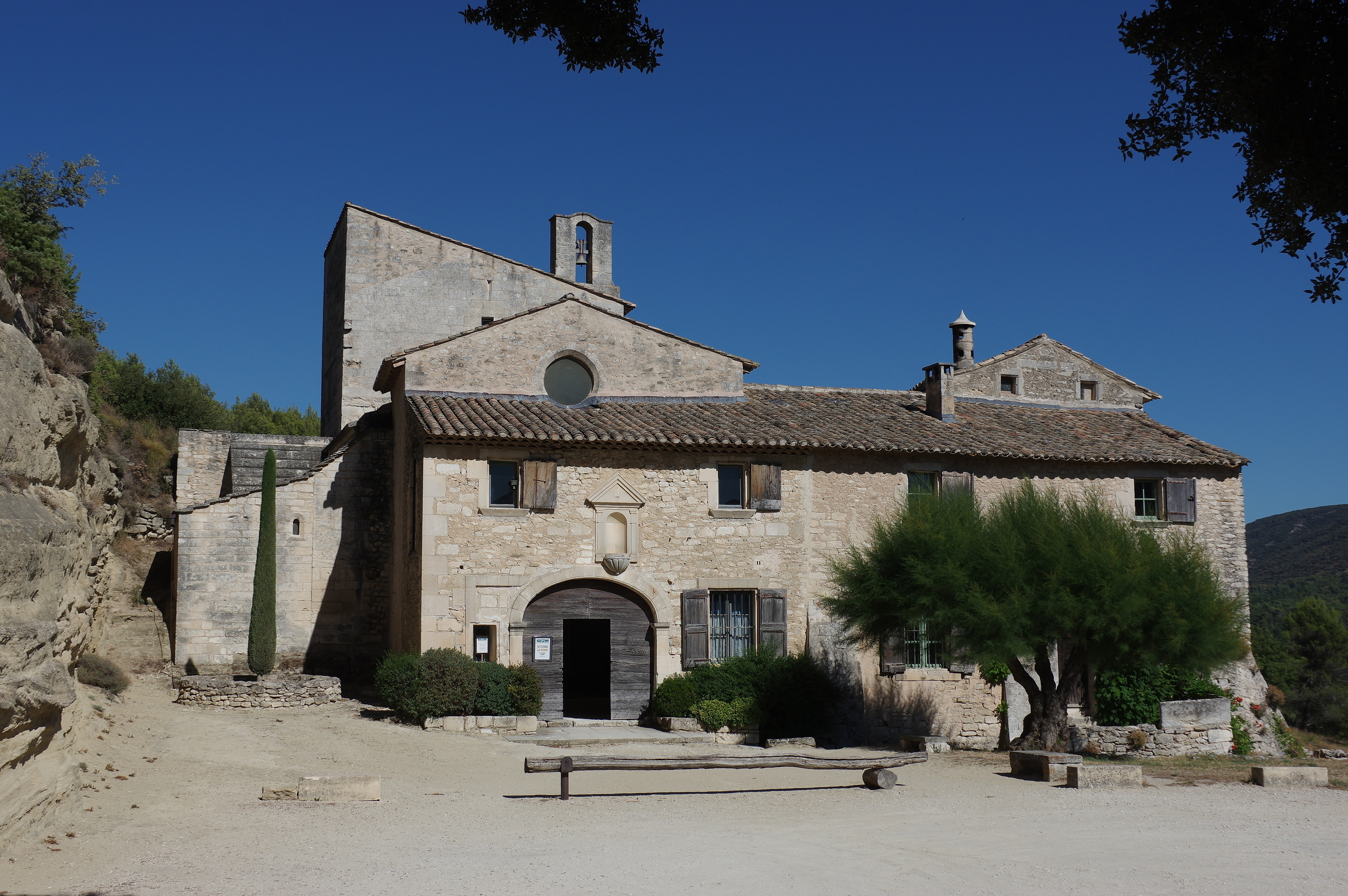 Entrance of Abbaye de Saint Hilaire, Ménerbes (France)